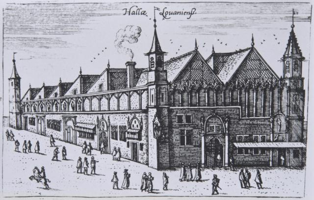 Former cloth hall in Leuven (1610) by Johannes Baptist Gramaye